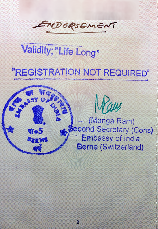 PIO card scheme was dismissed by Jan.9th 2015. All PIO cards became OCI cards - this is what it looks like.